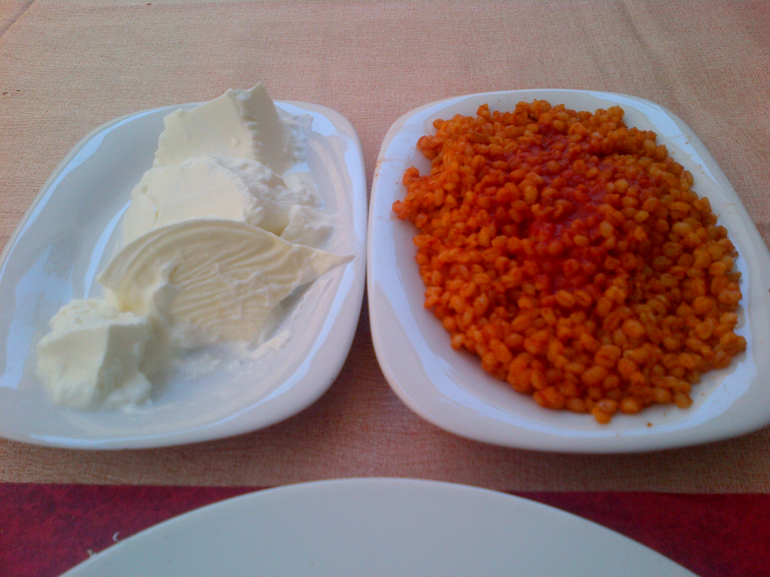 Bulgur dish with yoghurt, from Turkey.